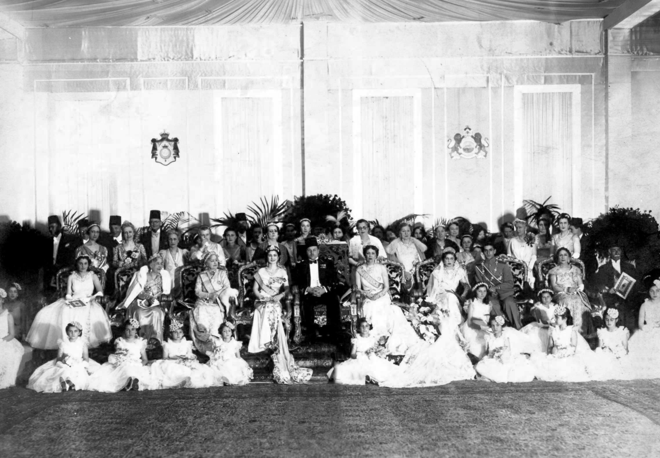 The Bibliotheca Alexandrina's caption erronesouly states that this is a commemorative photograph of the wedding of King Farouk I and Queen Farida of Egypt. In fact, it is a commemorative photograph of the wedding of Farouk's sister Princess Fawzia and Mohammad Reza Pahlavi, the then crown prince (later shah) of Iran. The persons sitting in the front row who can be identified with certainty are (from left to right): Sultana Melek (1869–1956), widow of Hussein Kamel, the bride's paternal uncle; Queen Farida (1921–1988), wife of King Farouk I; King Farouk I (1920–1965), the bride's brother, wearing black tie and a tarboosh; Queen Nazli (1894–1978), the bride's mother; Princess Fawzia (1921-2013), the bride, wearing a wedding dress; Crown Prince Mohammad Reza Pahlavi of Iran (1919–1980), the groom, in military uniform with a chain over his chest. Princess Shams (1917–1996), the groom's sister. In the upper side of the photograph can be seen the coat of arms of the Kingdom of Egypt (left) and the coat of arms of Pahlavi Iran (right). The wedding is considered an important event in the history of Egyptian–Iranian relations,[1] as well as a milestone in Shi'a–Sunni relations: King Farouk I was the ruler of the Muslim world's most powerful Sunni country, Mohammad Reza Pahlavi was crown prince of the world's largest Shi'a country, and the wedding ceremony was performed by Mustafa al-Maraghi, rector of Al-Azhar, the world's foremost Sunni religious institution.[2]